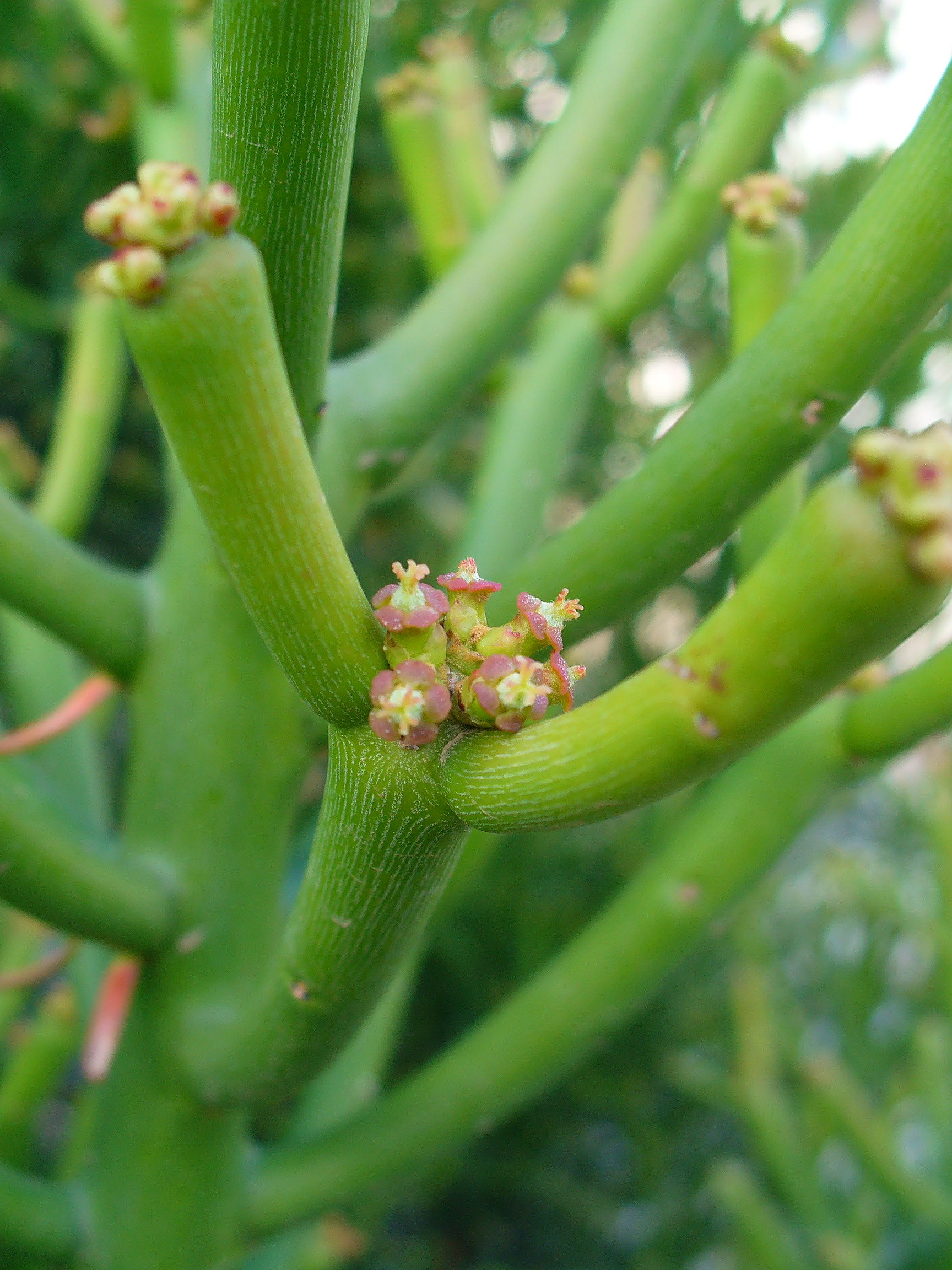 Euphorbia tirucalli, Euphorbiaceae, Indian Tree Spurge, Naked Lady, Pencil Tree, Sticks on Fire, Milk Bush, flowers; Hersonissos, Crete, Greece. The chyle is used in homeopathy as remedy: Euphorbia heterodoxa (Euph-hed.)